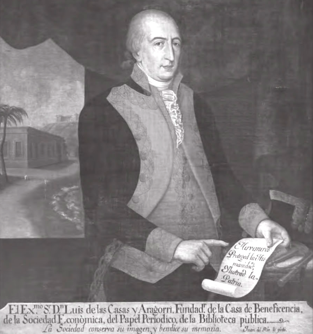 Portrait of Luis de Las Casas of Havana. In the background is "a portion of the Casa de Beneficiencia" building of the Sociedad Económica de los Amigos del País de la Habana.